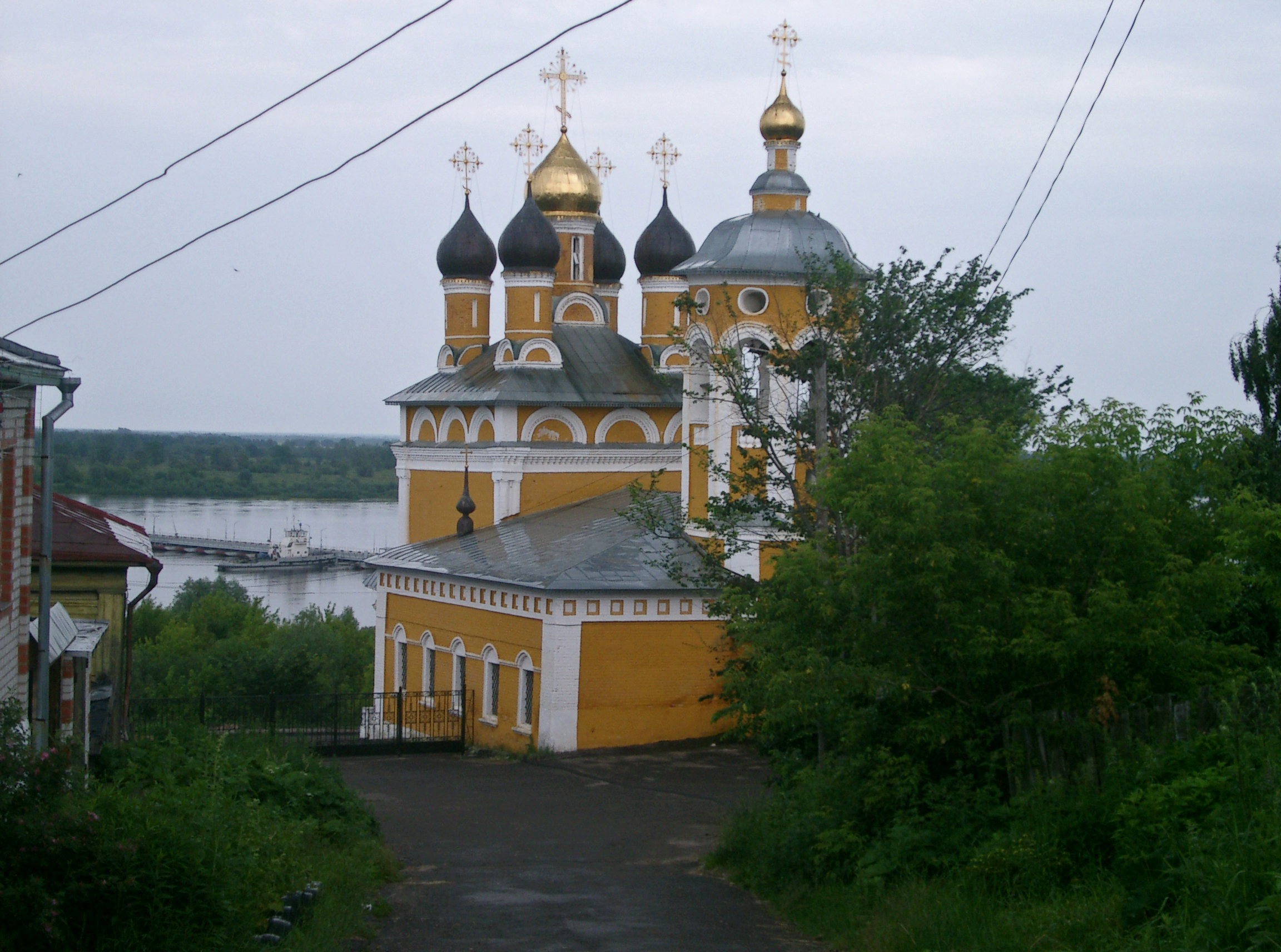 St Nicholas Church (Nikolo-Naberezhnaya Tserkov'), Murom